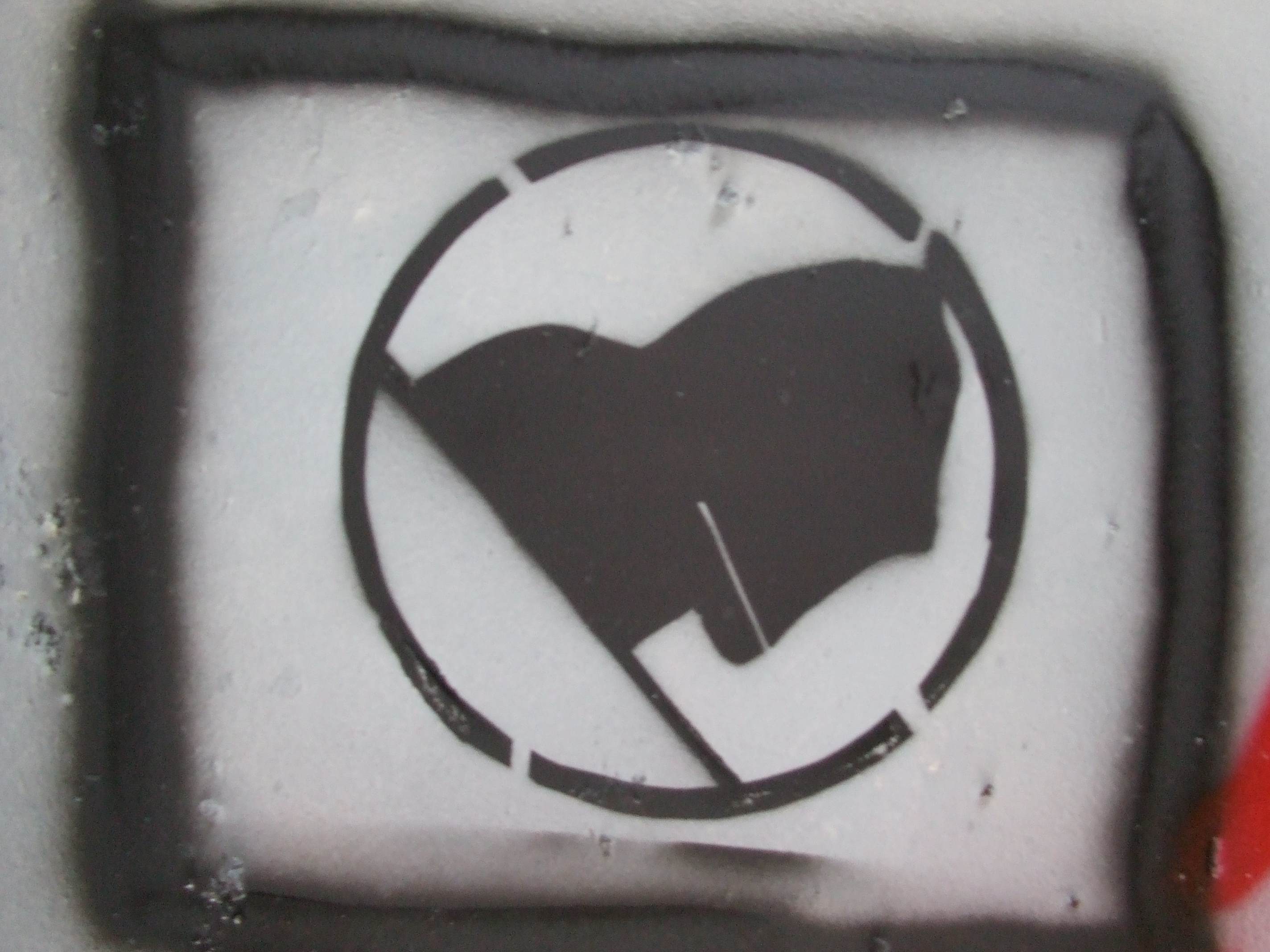 A piece of Stencil Art.